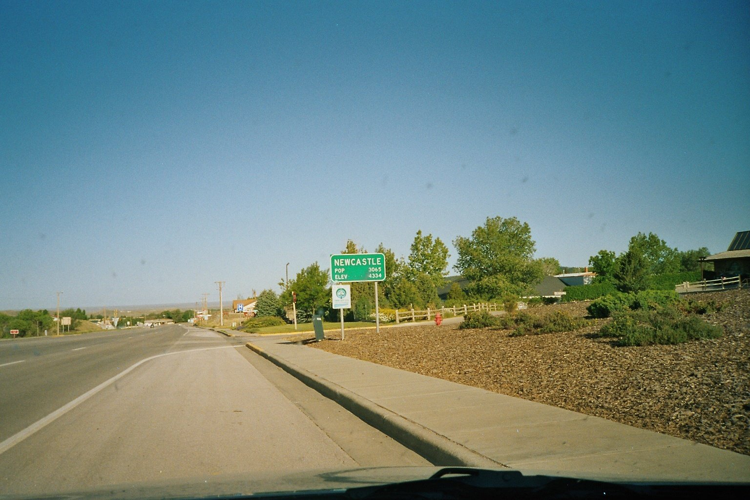 Newcastle Weston County